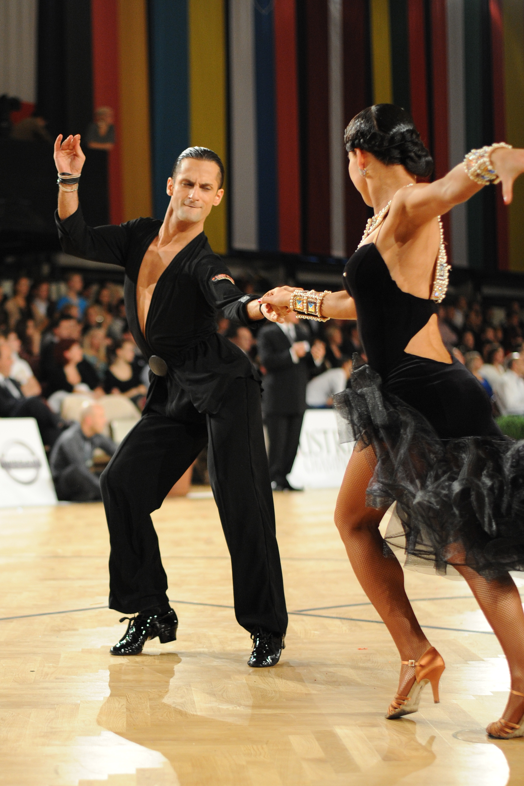 Austrian Open Championships Vienna, 2012 WDSF World Dancesport Championships Latin 16.-18. November 2012 The making of this work was supported by Wikimedia Austria. For other files made with the support of Wikimedia Austria, please see the category Supported by Wikimedia Österreich. Personality rights warning Although this work is freely licensed or in the public domain, the person(s) shown may have rights that legally restrict certain re-uses unless those depicted consent to such uses. In these cases, a model release or other evidence of consent could protect you from infringement claims.